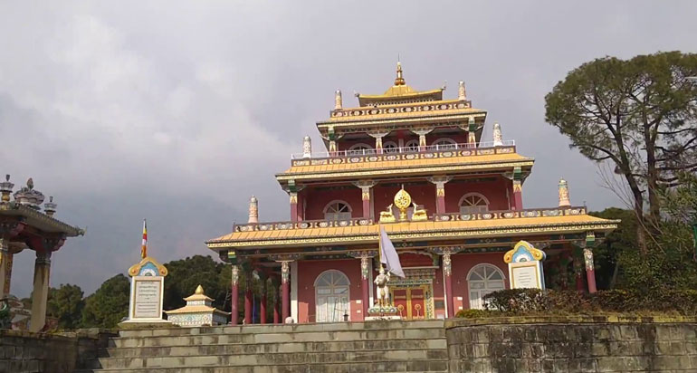 Dorzong Monastery is located on the foot of Dhauladhar Mountain Range, Dorzong Monastic Institute is a place for studying and practicing Buddha Dharma. The institute is situated about 20kms from Dharamshala near Gopalpur village. See More